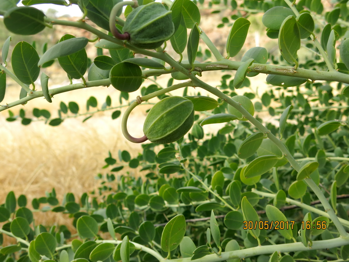 Caper bush - Capparis spinosa var nummularia (fruit)